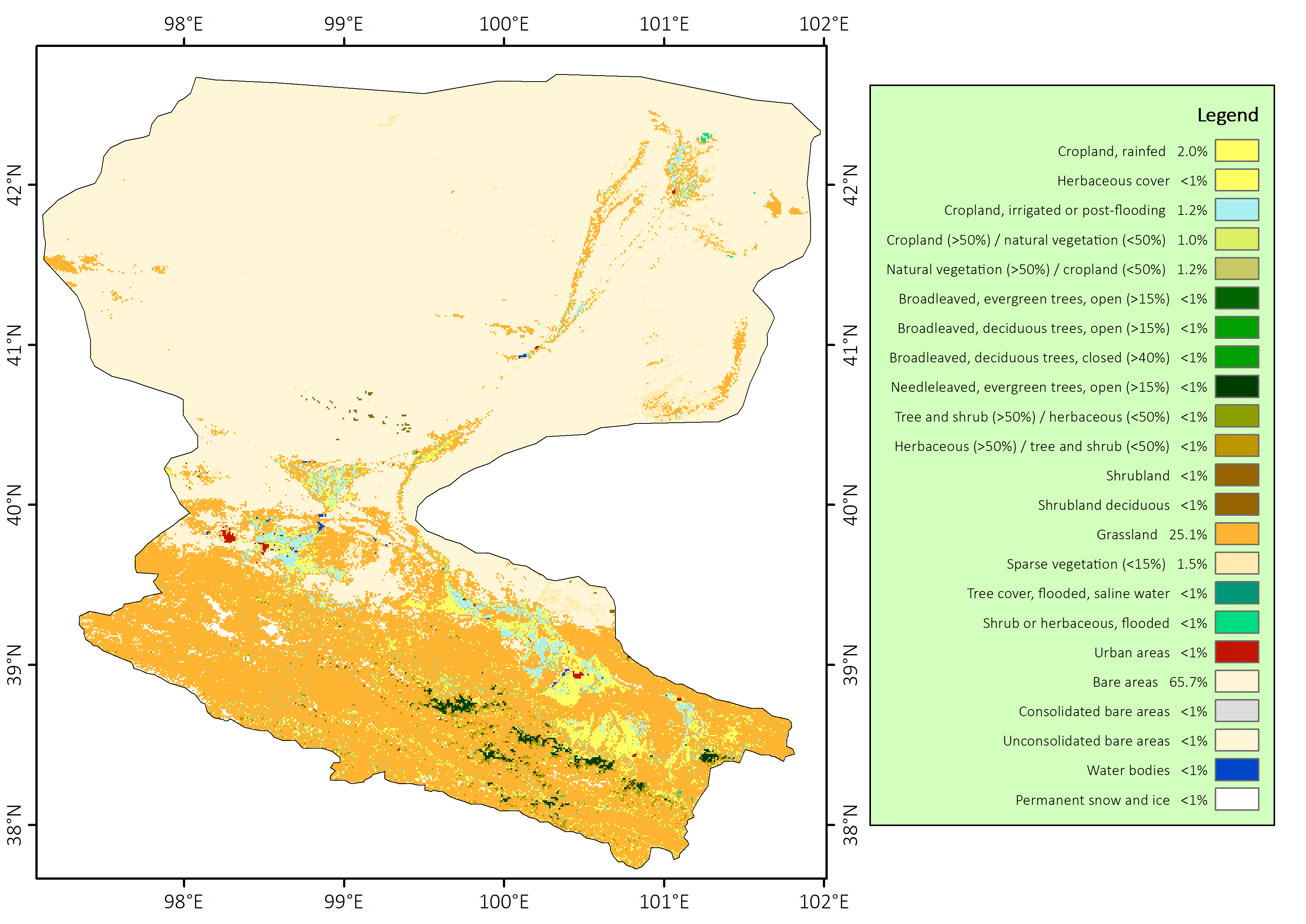 Land cover classes in the HeiHe basin obtained using data from ESA Climate Change Initiative (ESACCI).